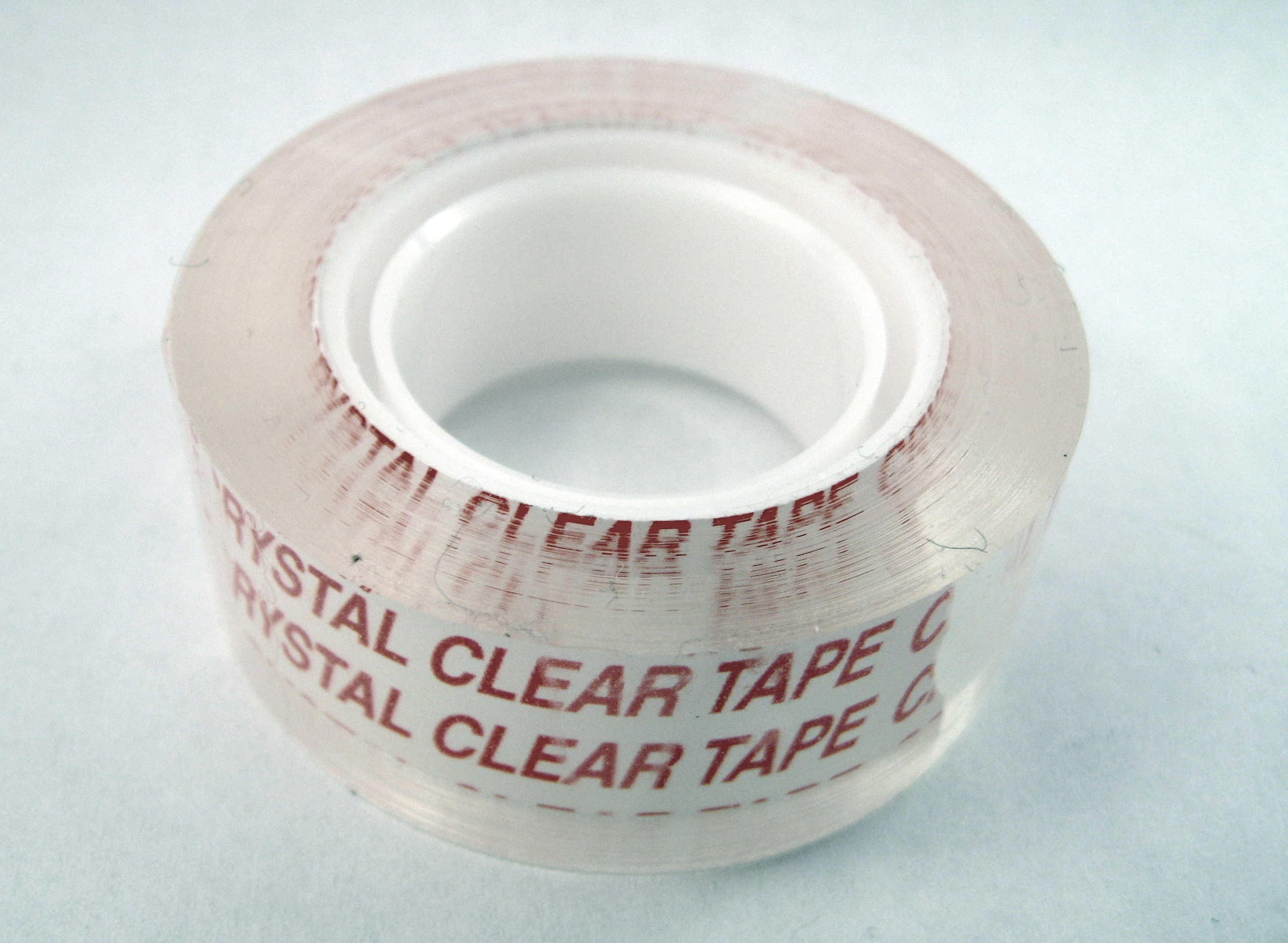 clear adhesive tape